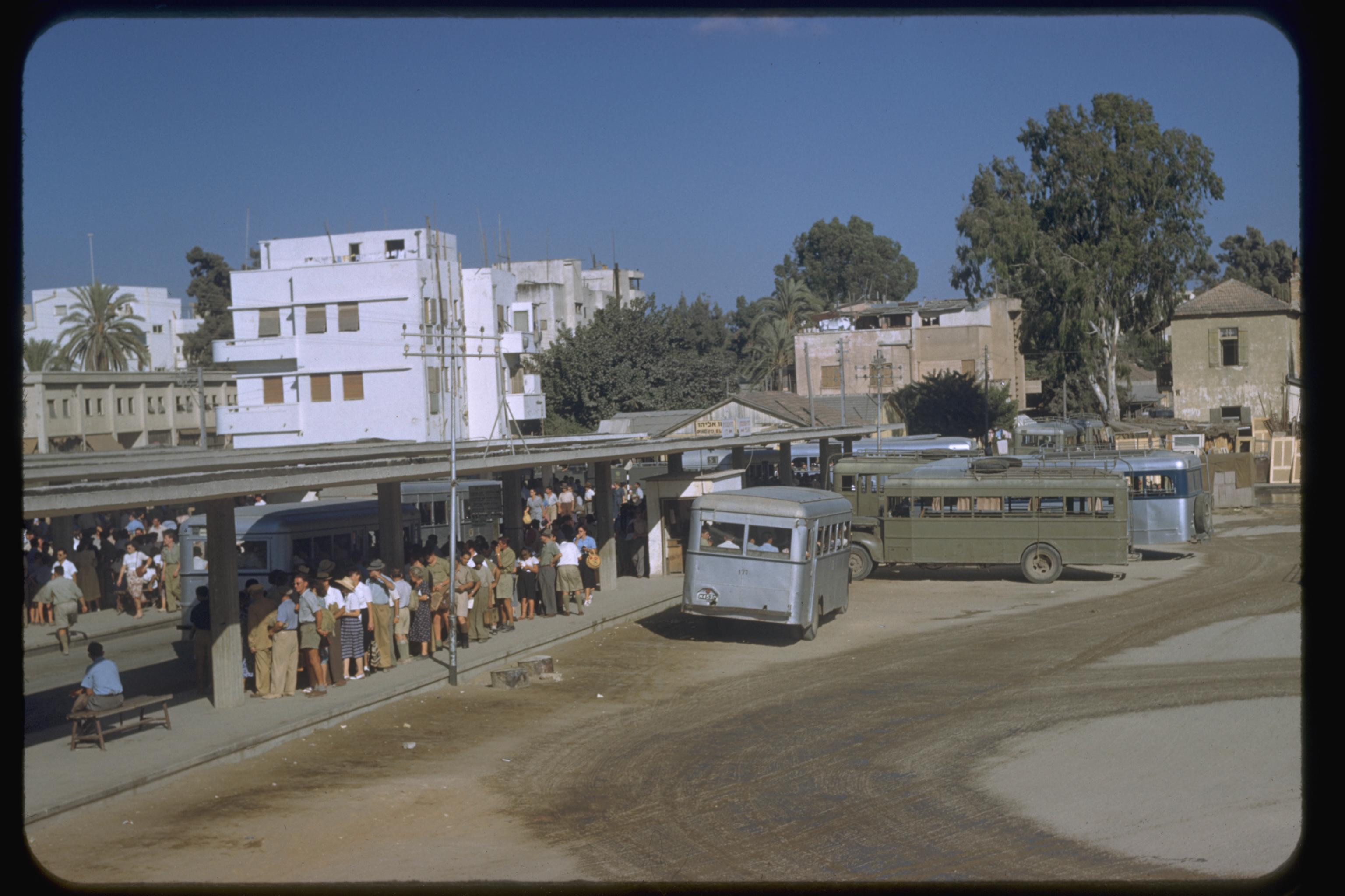 Original Description: CENTRAL BUS STATION IN TEL AVIV.